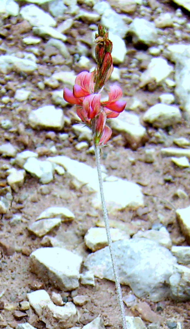 Onobrychis supina, flowers in the wild, Castelltallat, Catalonia